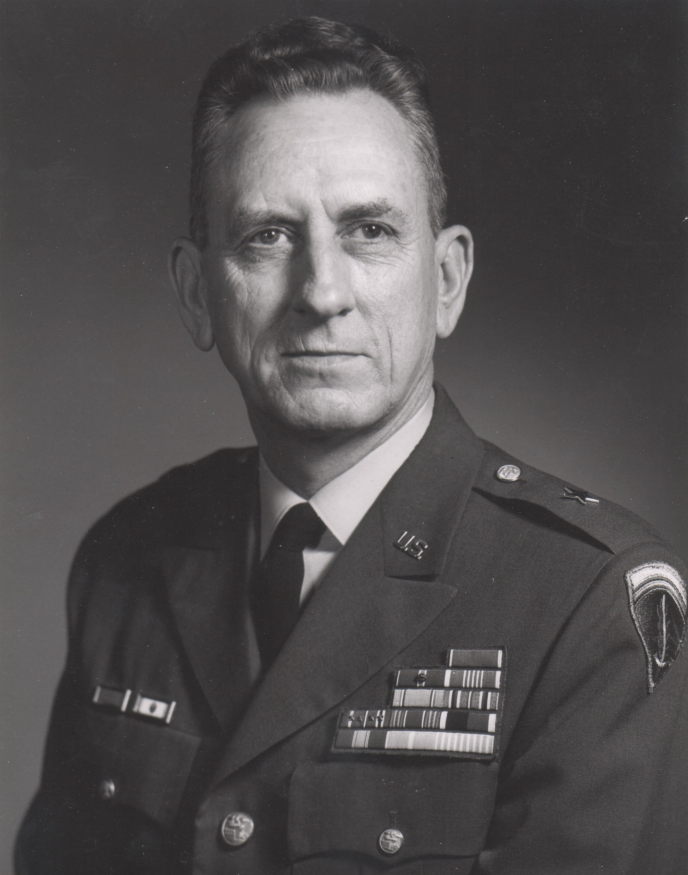 Service photo of Brig Gen Roy S. Kelley